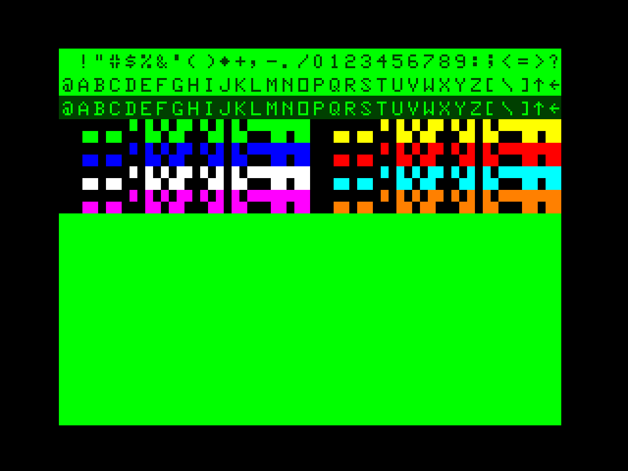 Simulated screenshot of a TRS-80 Color Computer showing all available alphanumeric characters and semigraphics characters.